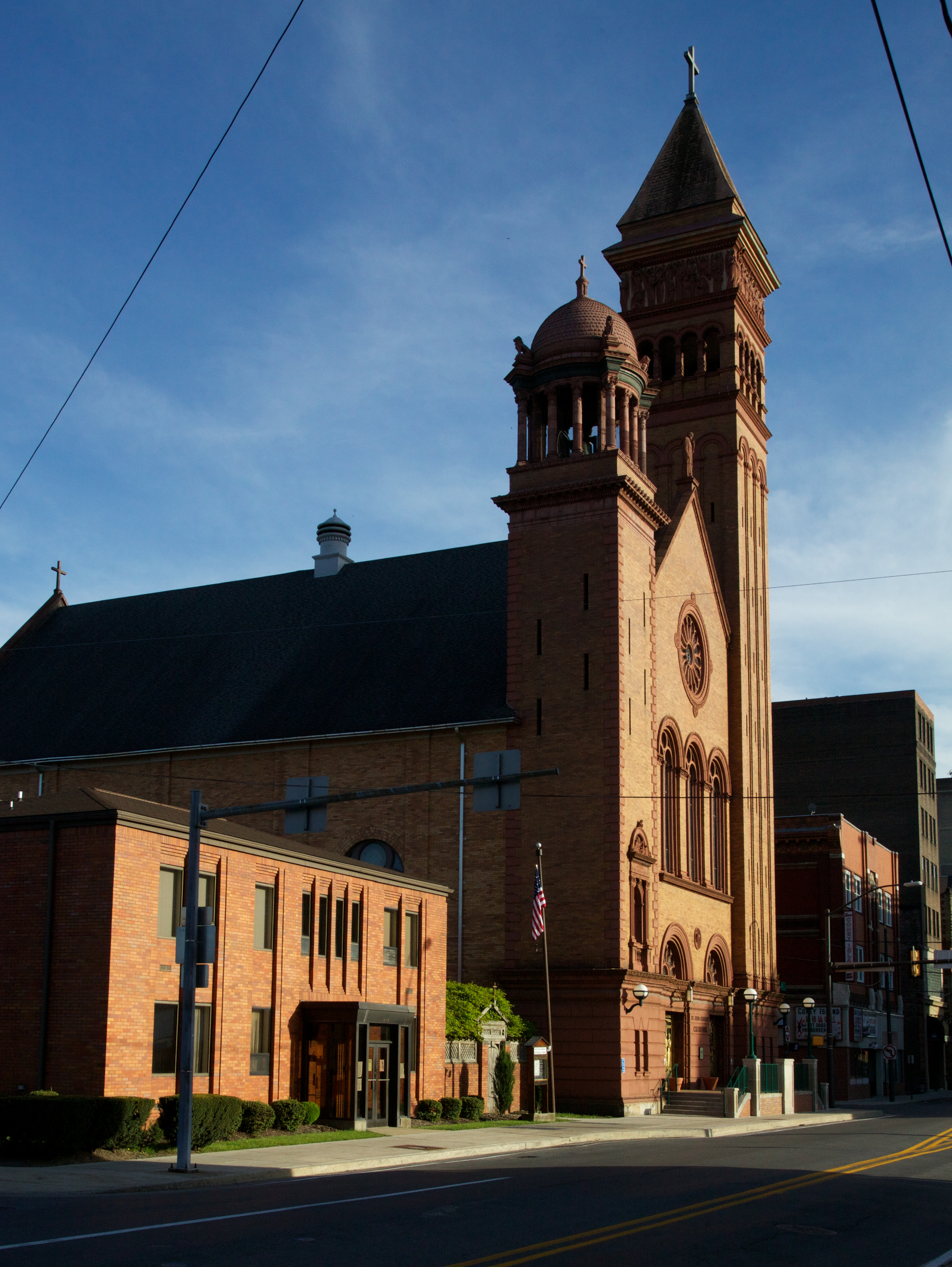 St. John Gualbert Cathedral in Johnstown, Pennsylvania